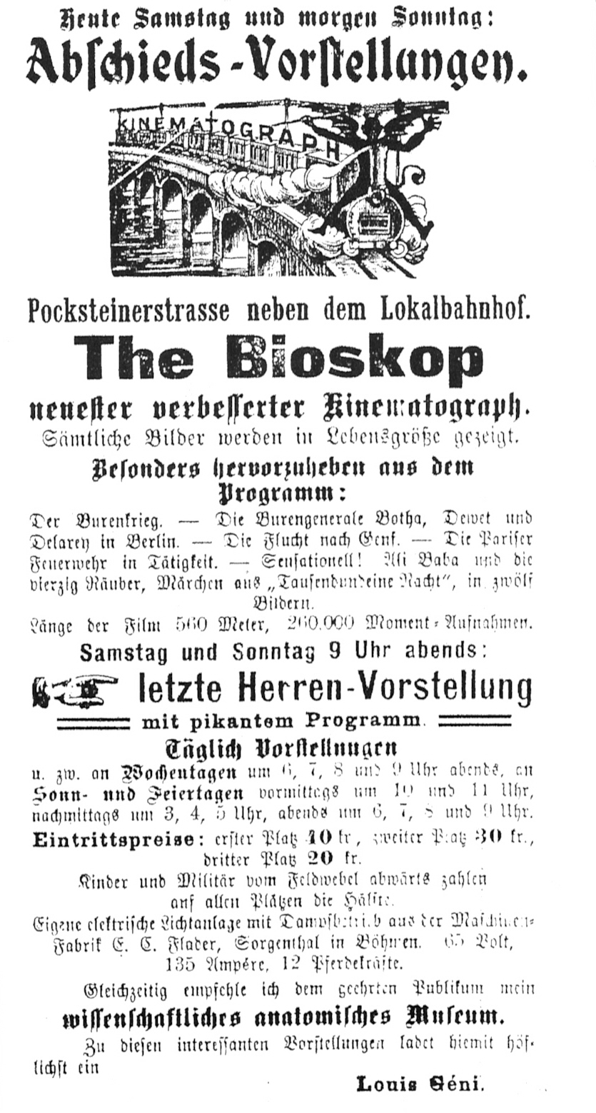 Inserat in der Zeitung "Bote von der Ybbs", Waidhofen an der Ybbs, Nr. 38, 19. September 1903, für die Abschiedsvorstellung des Wanderkinos "The Bioskop" ("The Bioscop") von Louis Geni; es wird extra auf "Herren-Vorstellung" hingewiesen, also Aufnahmen spärlich oder gar nicht bekleideter Damen; Solche Aufnahmen wurden aufgrund negative Erfahrungen mit Polizei und Zensur immer häufiger erst am letzten Tag eines Wanderkinoaufenthaltes vorgeführt. (en: advertise in the newspaper "Bote von der Ybbs", Waidhofen an der Ybbs, Austria, 19 september 1903, Nr. 38, for the last performance at this place of the "Wanderkino" (wandering cinema) "The Bioskop" of Louis Geni); it is extra mentioned that there was "Herren-Vorstellung" (films for men) to see; that means barely or undressed women; such screenings often took place only on the last day of a stop in a town, because of bad experiences with police and censorship)